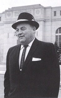 Nebraska Cornhuskers football coach Bob Devaney